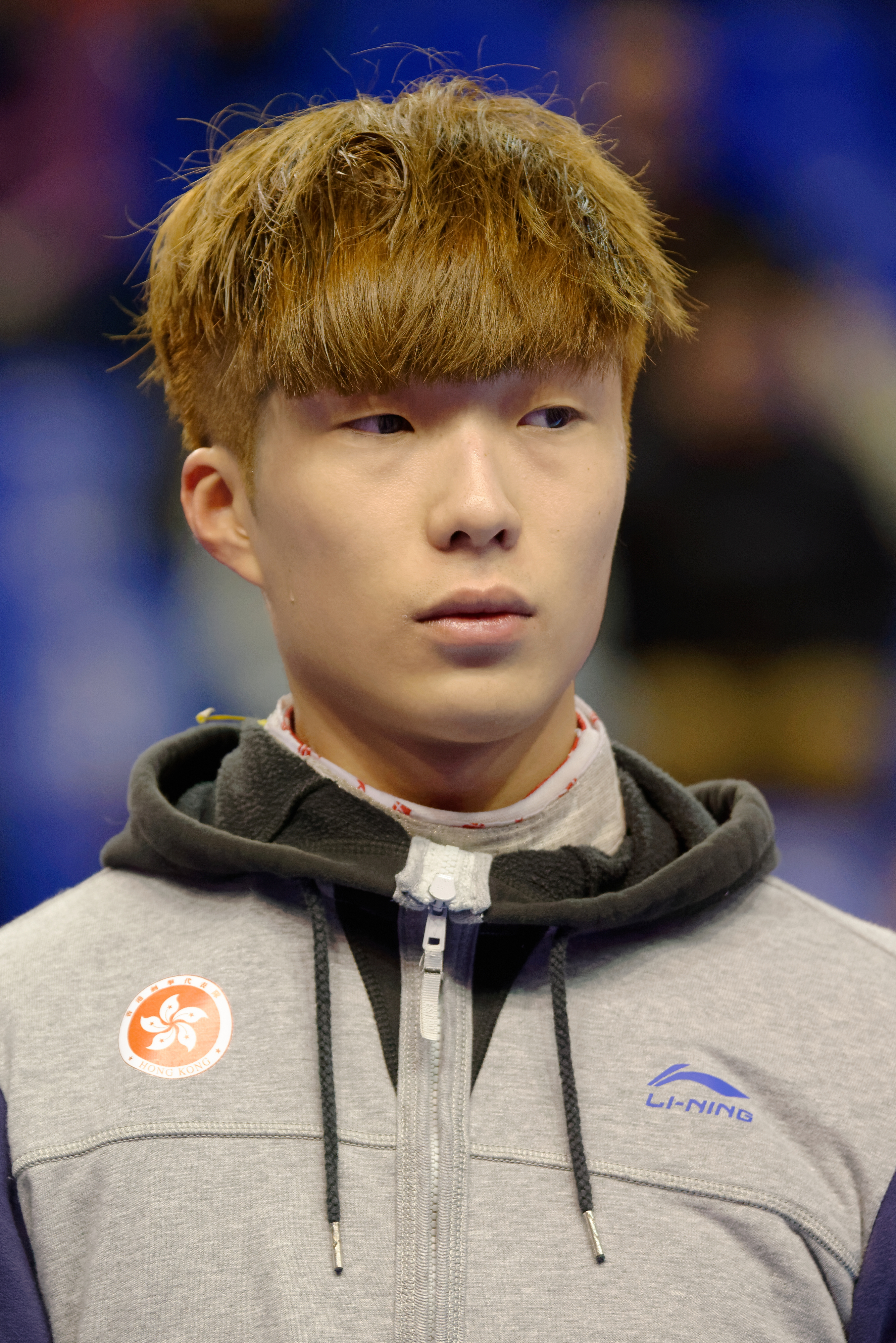 Hong Kong's Cheung Ka Long at the individual event of the 2016 Challenge International de Paris, a men's foil World Cup competition.